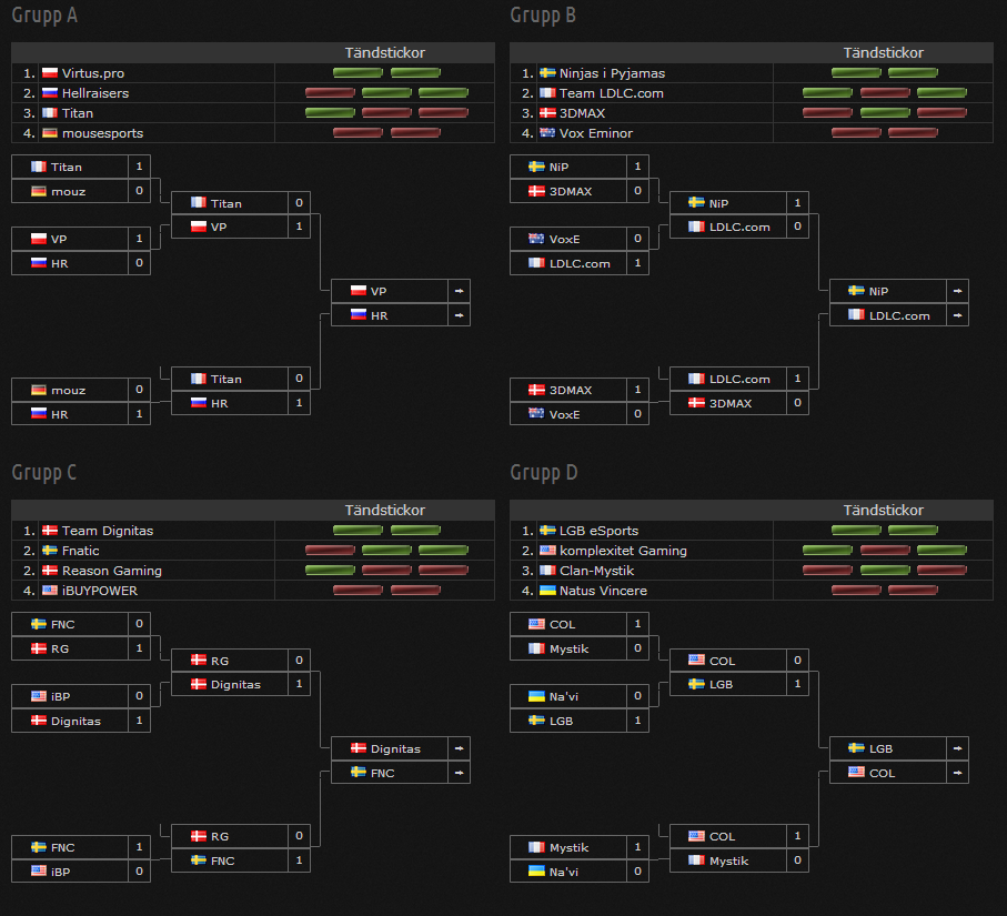 Groupstage CS GO